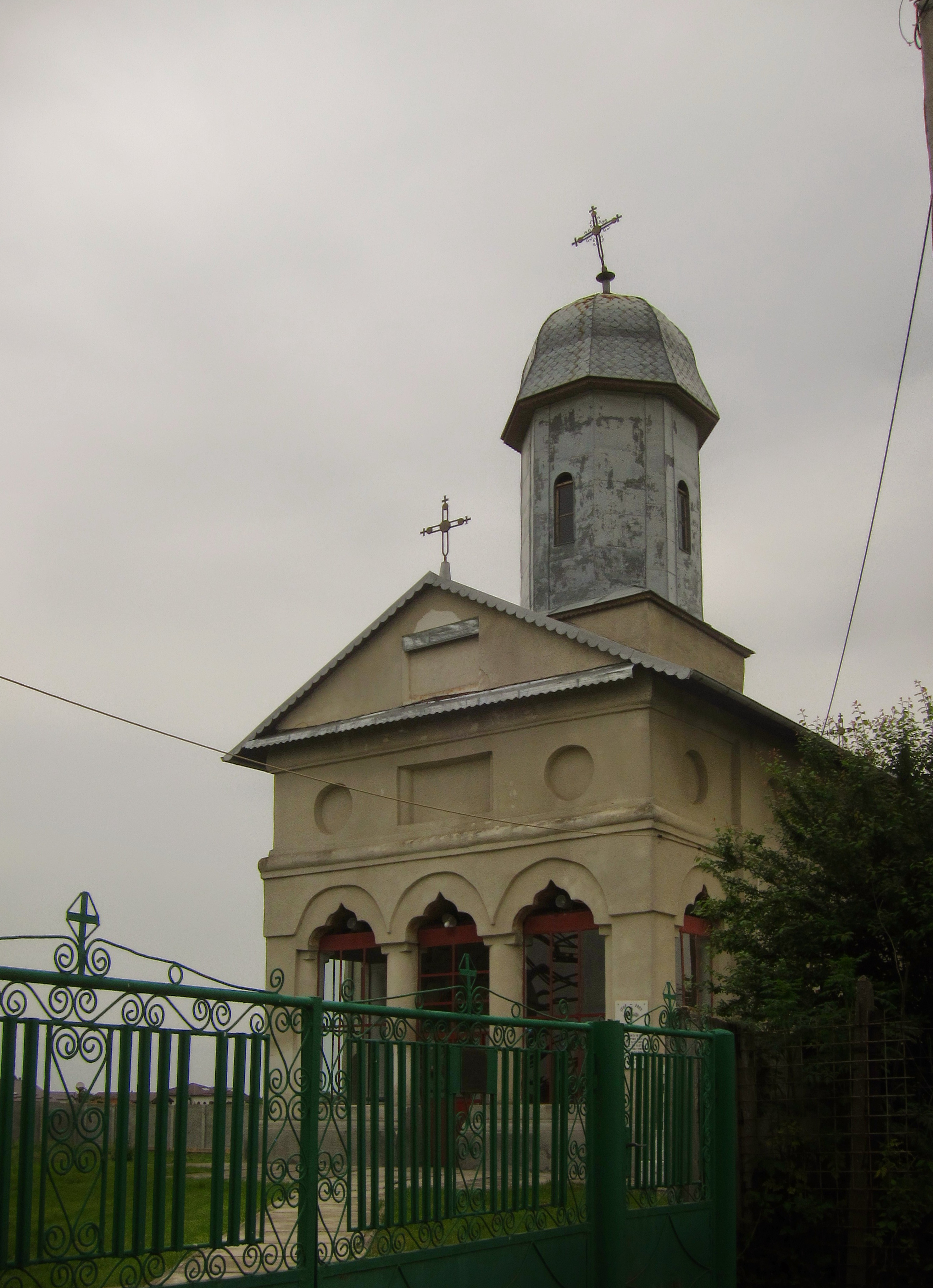 Saint Nicholas' church in Tunari, Ilfov County, RomaniaRomână: Biserica „Sfântul Nicolae” din Tunari, județul Ilfov, România